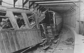 Malbone Street Wreck, today: Prospect Park